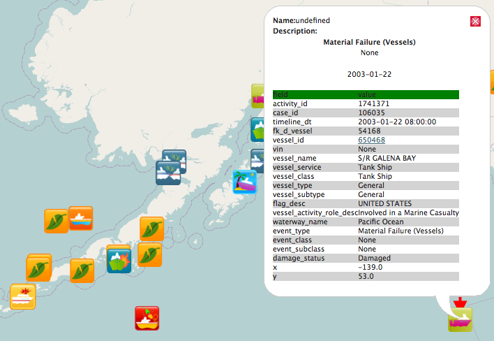 USCG Marine Information Safety Law Enforcement (MISLE) public data visualization for Alaska over Open Street Map (OSM) map data.